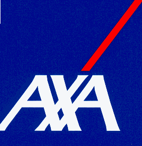 ini adalah logo AXA